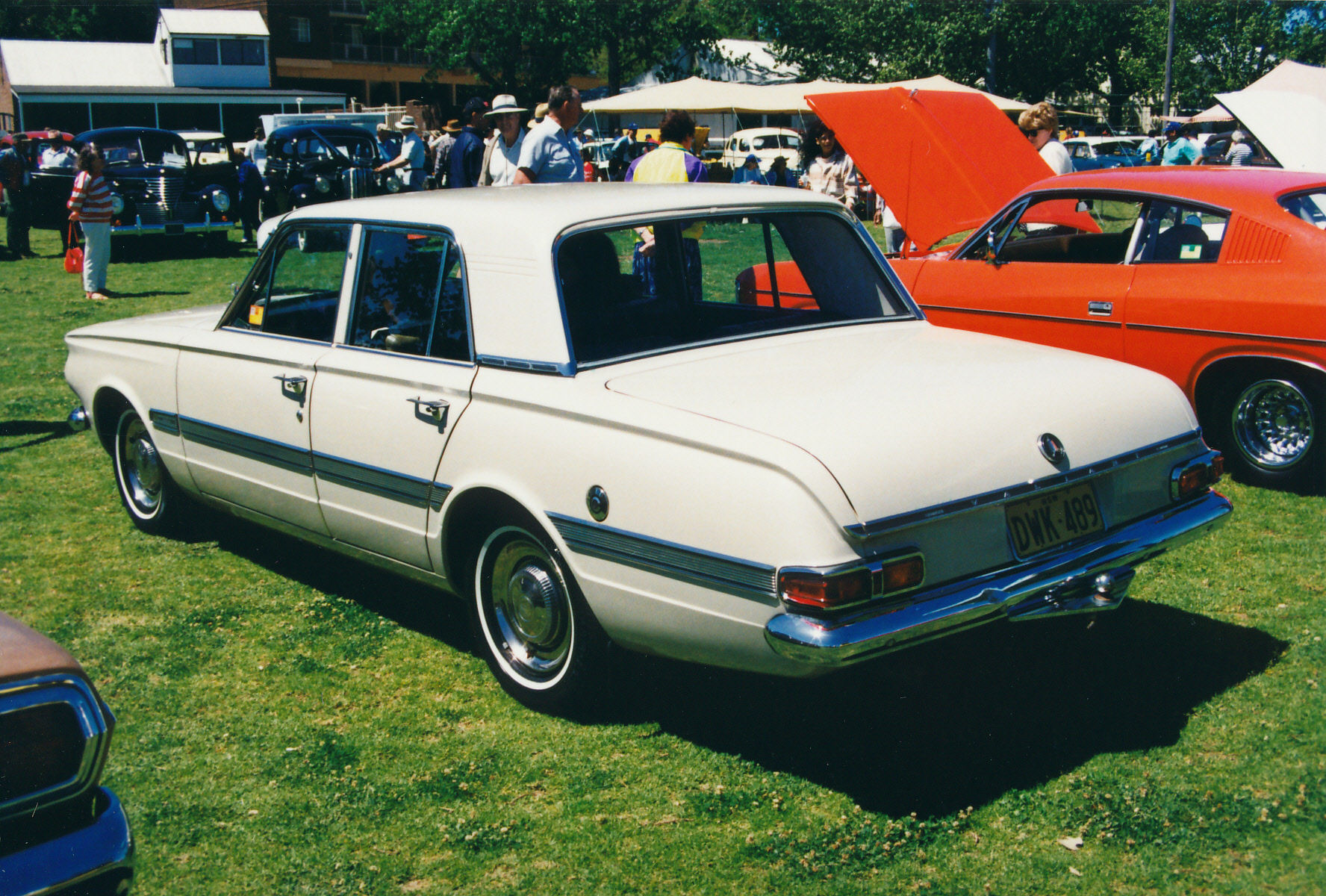 Chrysler Valiant Regal sedan (AP6). This image is a scan of a 35 mm print taken at the All Chrysler Day at Camden, NSW in 1993